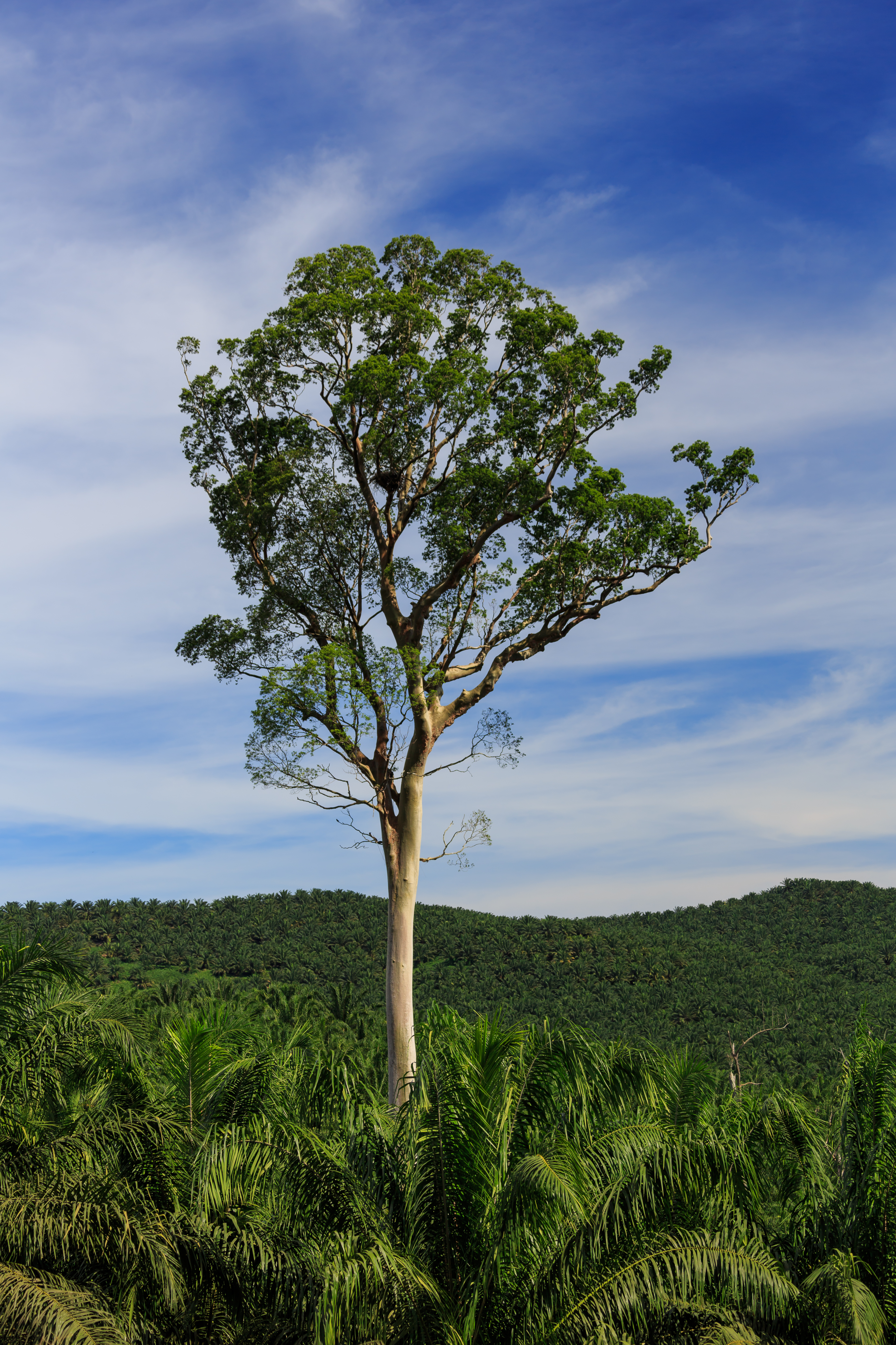 District Tawau, Sabah: A haunted Menggaris Tree (Koompassia excelsa) along the Sapulut-Kalabakan-Road. As locals believe this tree to be haunted, it was spared from logging when converting virgin jungle into a palm oil estate.